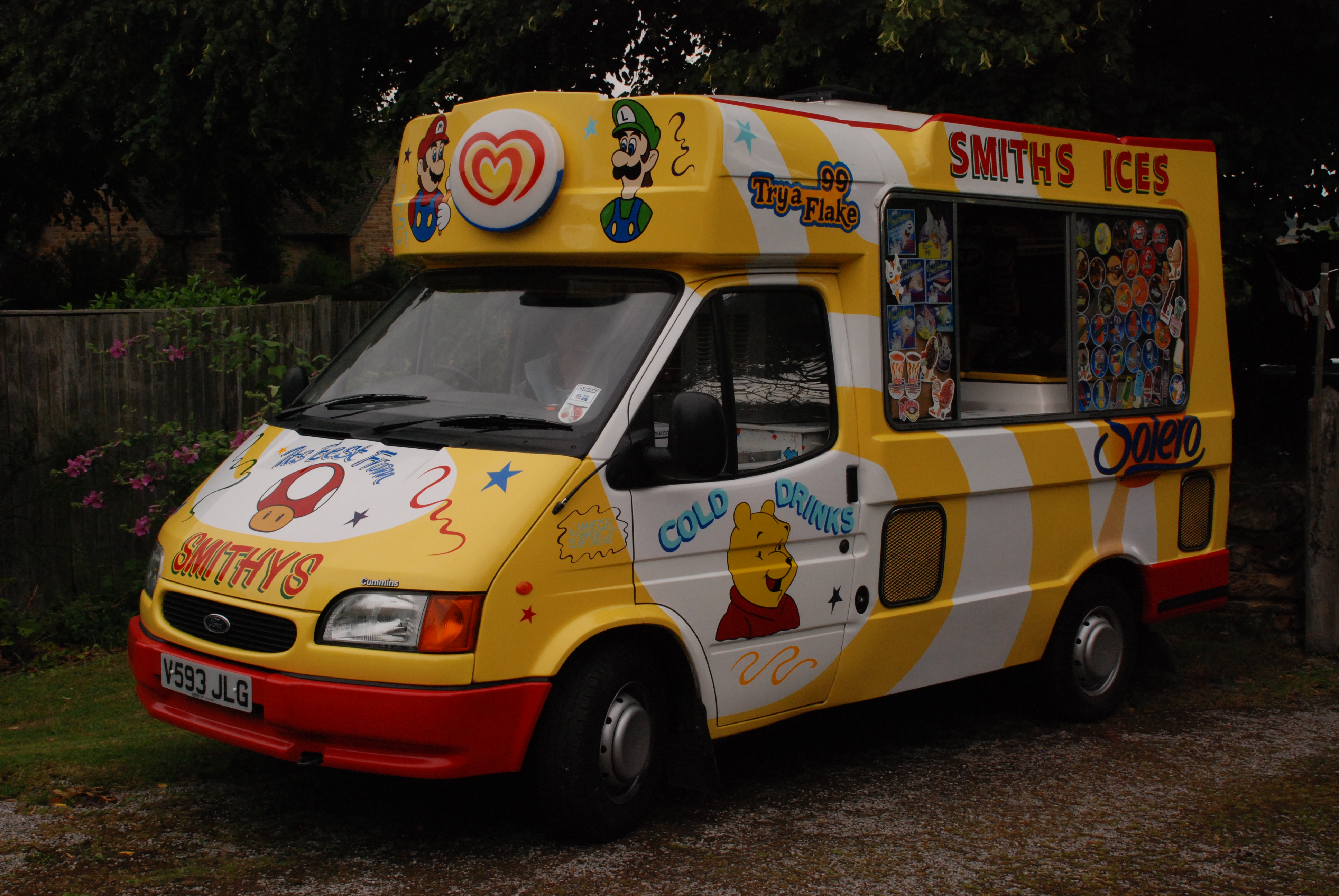 A 1999 Ford Transit Ice Cream Van at Heath Village Fete, Derbyshire, England.